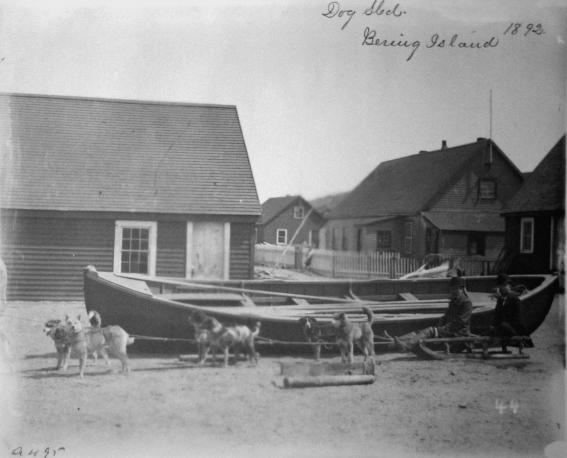 Dog sled, Bering Island, 1892. Image ID: fish7878, NOAA's Historic Fisheries Collection Location: Bering Island, Bering Sea, Russia Photo Date: 1892 Photographer: Archival Photographer Stefan Claesson Credit: Gulf of Maine Cod Project, NOAA National Marine Sanctuaries; Courtesy of National Archives